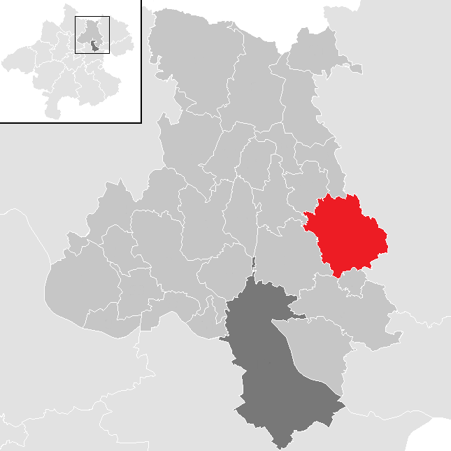 District Urfahr-Umgebung